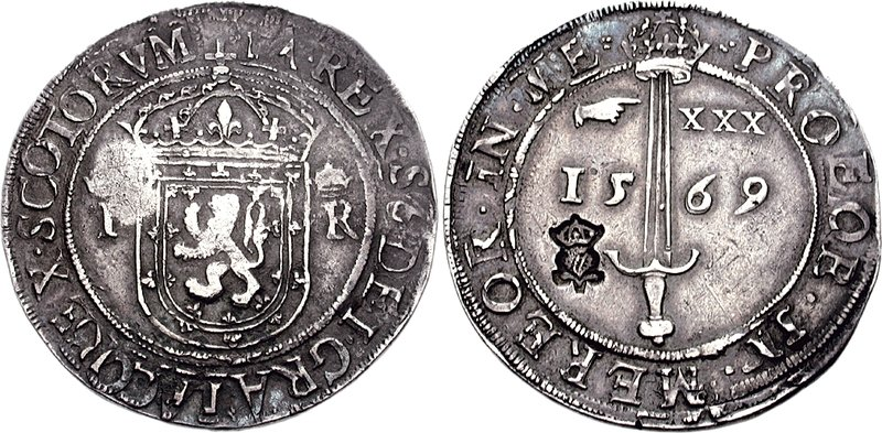 Scotland. James VI of Scotland. 1567-1625. AR Ryal (30.39 g, 6h). First coinage, dated 1569. IACOBVS • 6 • DEI • GRATIA• REX • SCOTORVM •, crowned royal coat-of-arms; crowned I and R flanking \ PRO • ME • SI • MEREOR • IN • ME \, crowned upright sword; to upper right, hand pointing right; to upper left, XXX; 15 69 across field; c/m: thistle in incuse. Burns Fig. 921, 4; SCBI 35 (Ashmolean & Hunterian) 1207; SCBC 5472. Good VF, toned, rotated double strike .